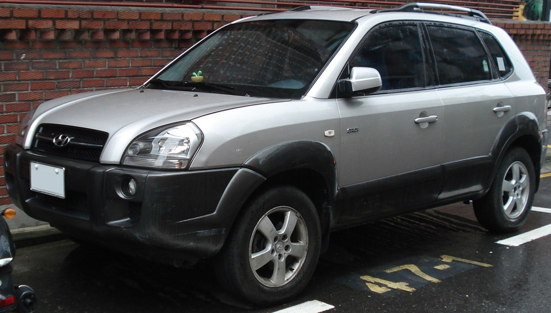 Hyundai Tucson